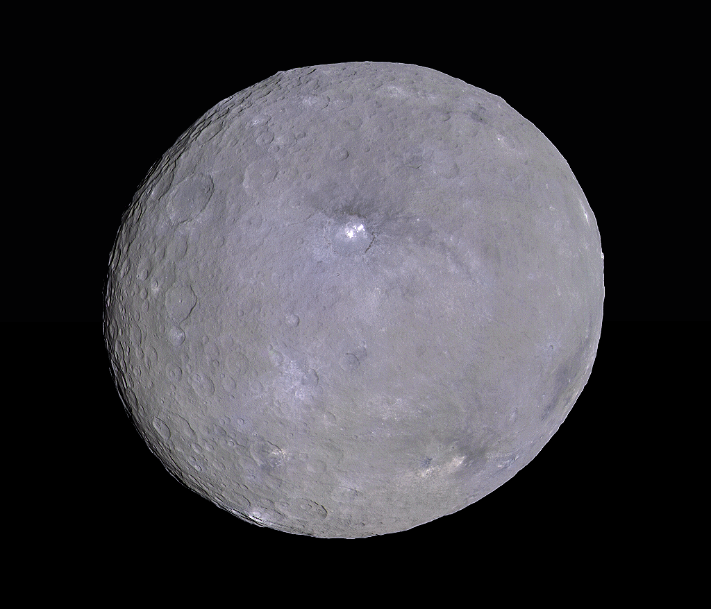 Ceres, approximately as a human would see it. Occator crater is at center that contains Ceres' enigmatic bright spots.The photos were taken by Dawn during its "Rotation Characterization 3," on May 4, 2015.